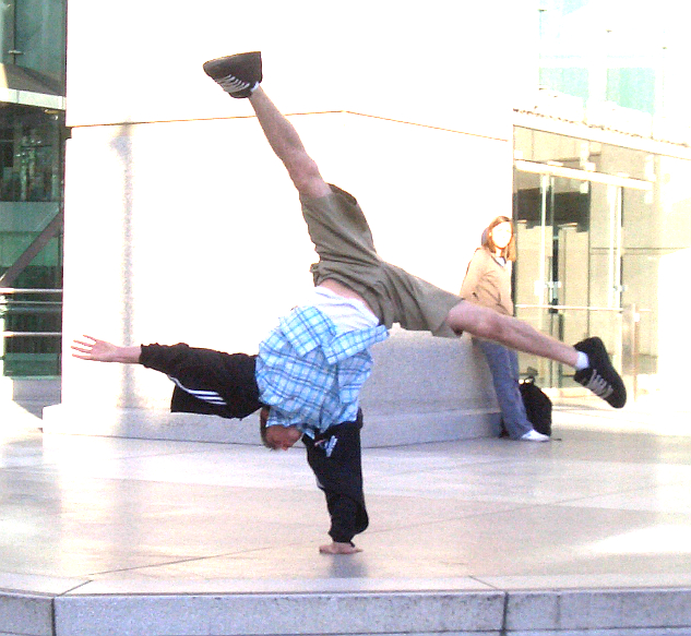 One-armed handstand with straddle split.